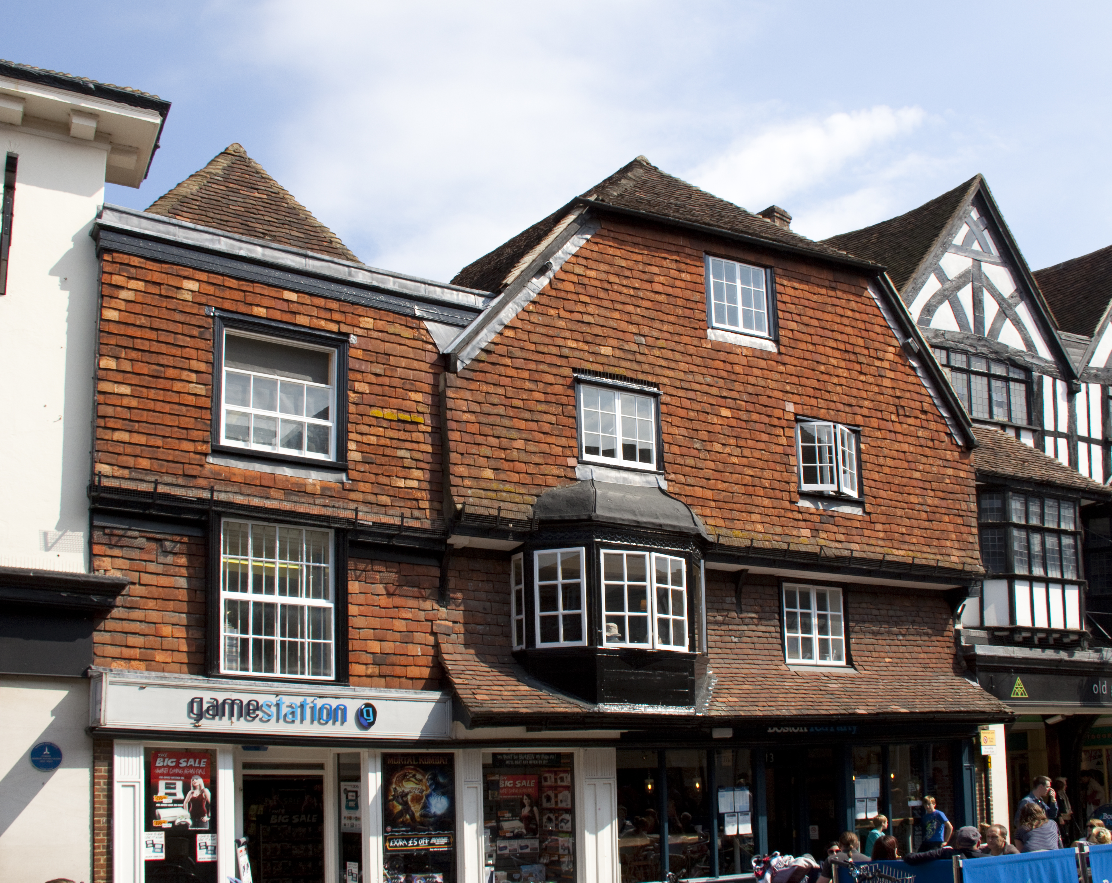 16th Century building altered during the 18th Century